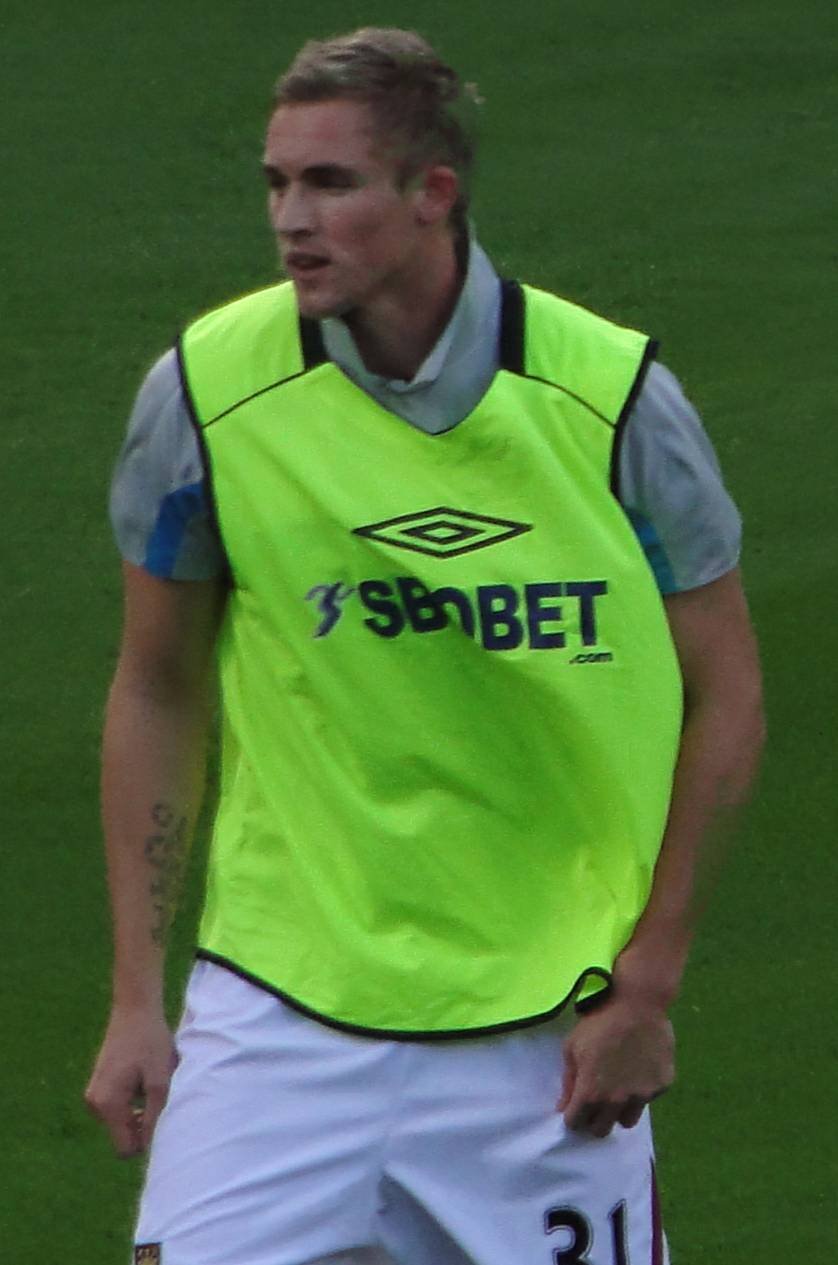 West Ham's Jack Collison warming-up before their 5-3 win against Burnley , November 2009